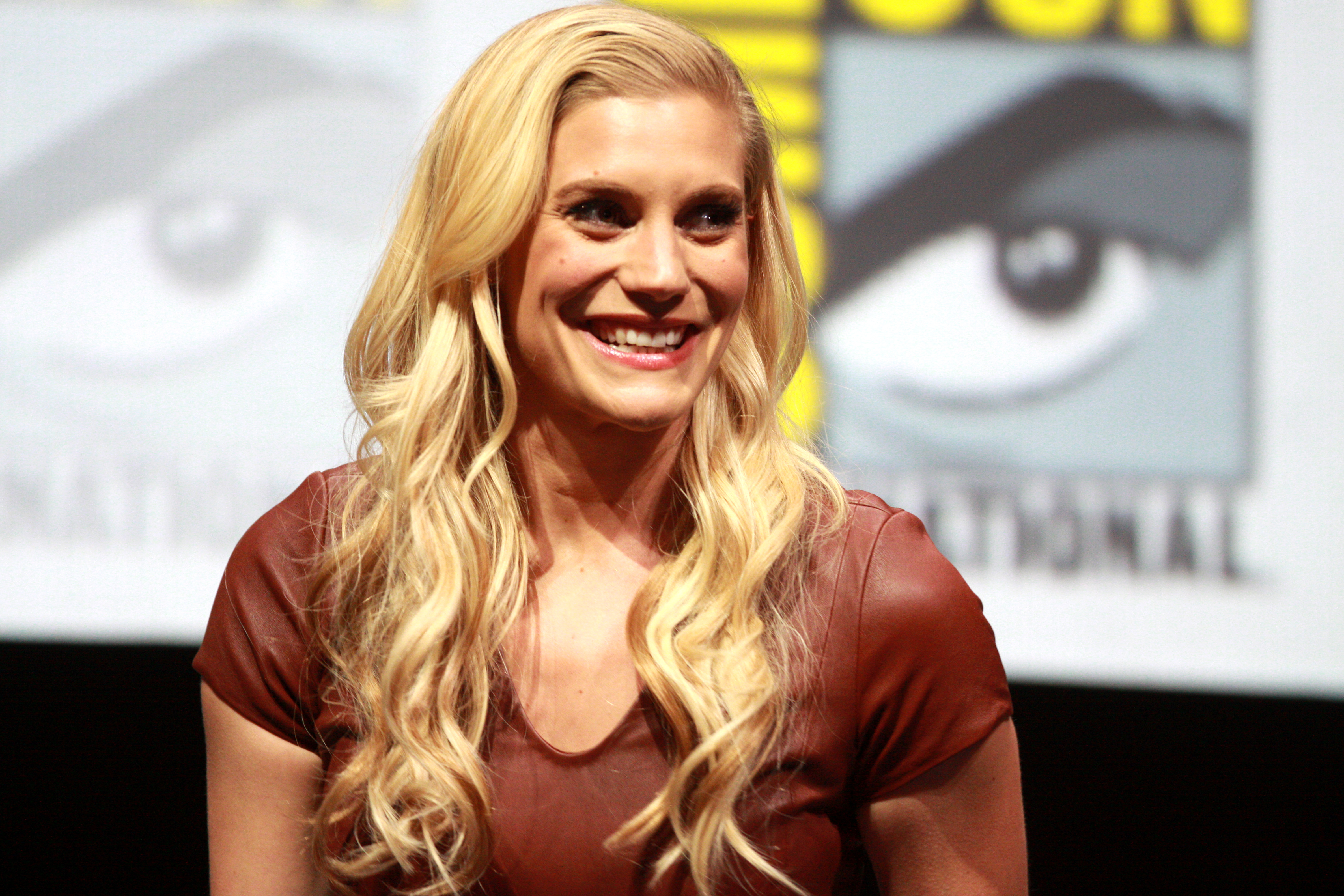 Katee Sackhoff speaking at the 2013 San Diego Comic Con International, for "Riddick", at the San Diego Convention Center in San Diego, California.